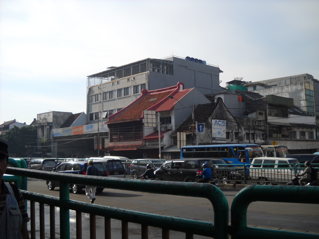 Old Chinese quarter gradually being replaced by new building, near Stasiun Kota, Jakarta, Indonesia.